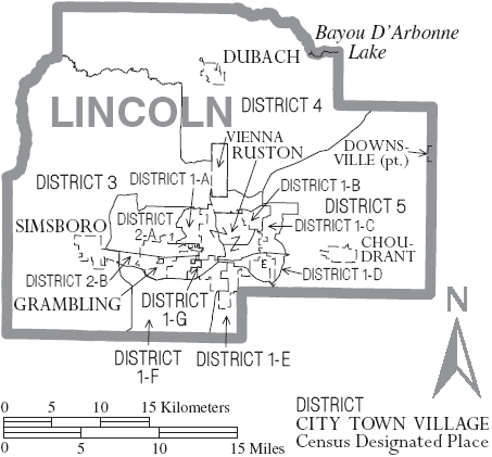 Map of Lincoln Parish, Louisiana, United States with district and municipal boundaries